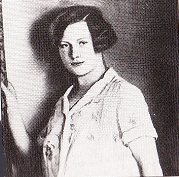 Maria Hahn. Murdered by Peter Kürten in August 1929. Weimar Republic police image.